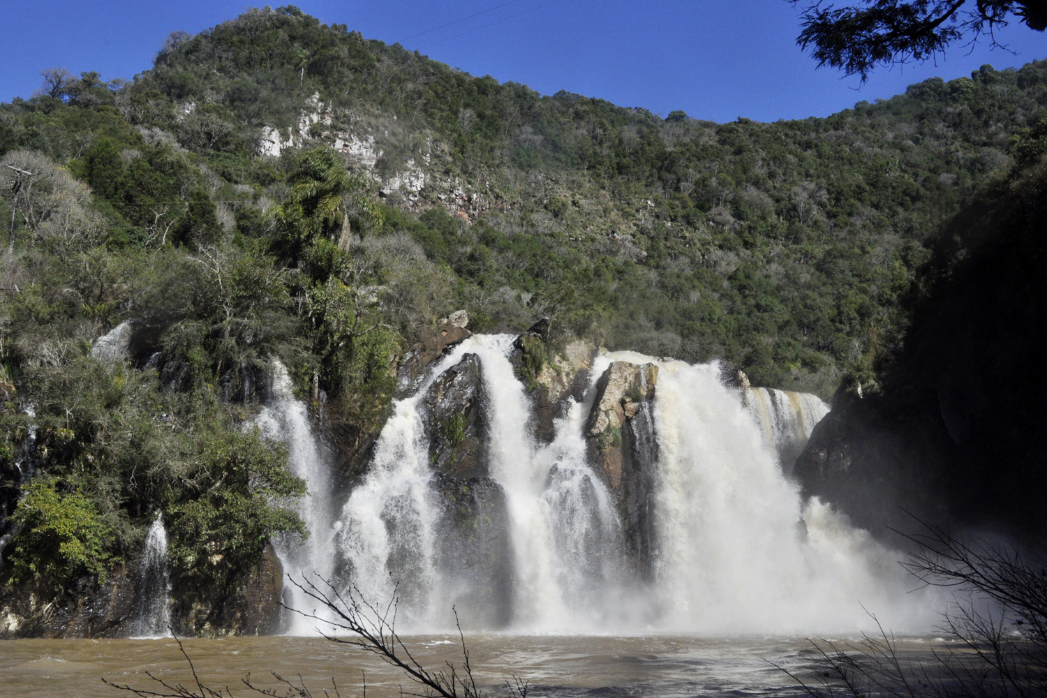 Nova Prata, Jul/11 (Foto: Rafaela Ely)